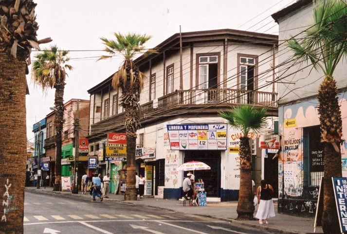 Author: Webber Source: "own work" Date: 2001